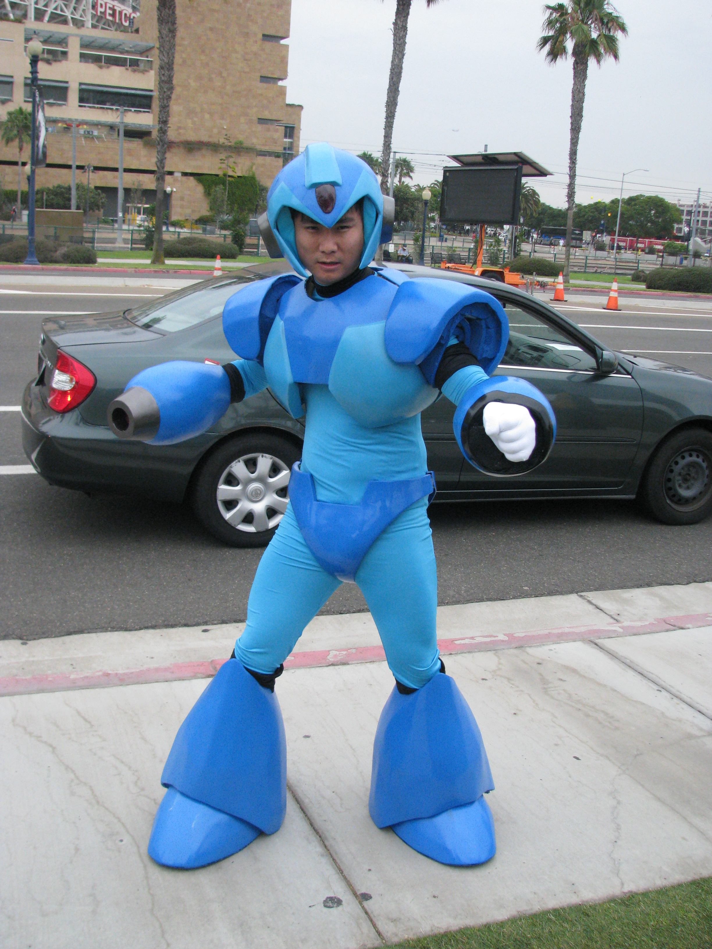 A cosplay of X from Megaman X. Cosplay at San Diego Comic Con 2012.